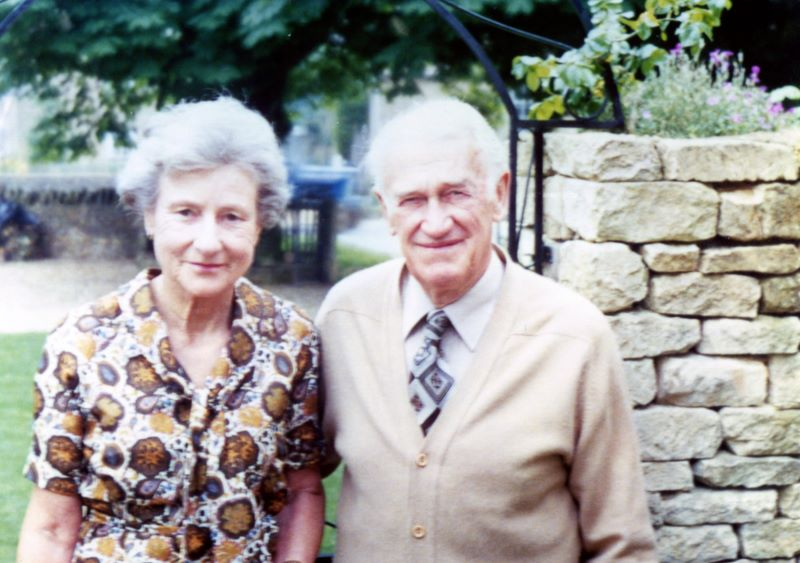 My grandfather, Archie Forbes with his wife Mary in the 1980's. From our Family Photograph Collection. Photo created on self timer, both individuals are deceased, however all heirs consent to releasing the image under a free license.